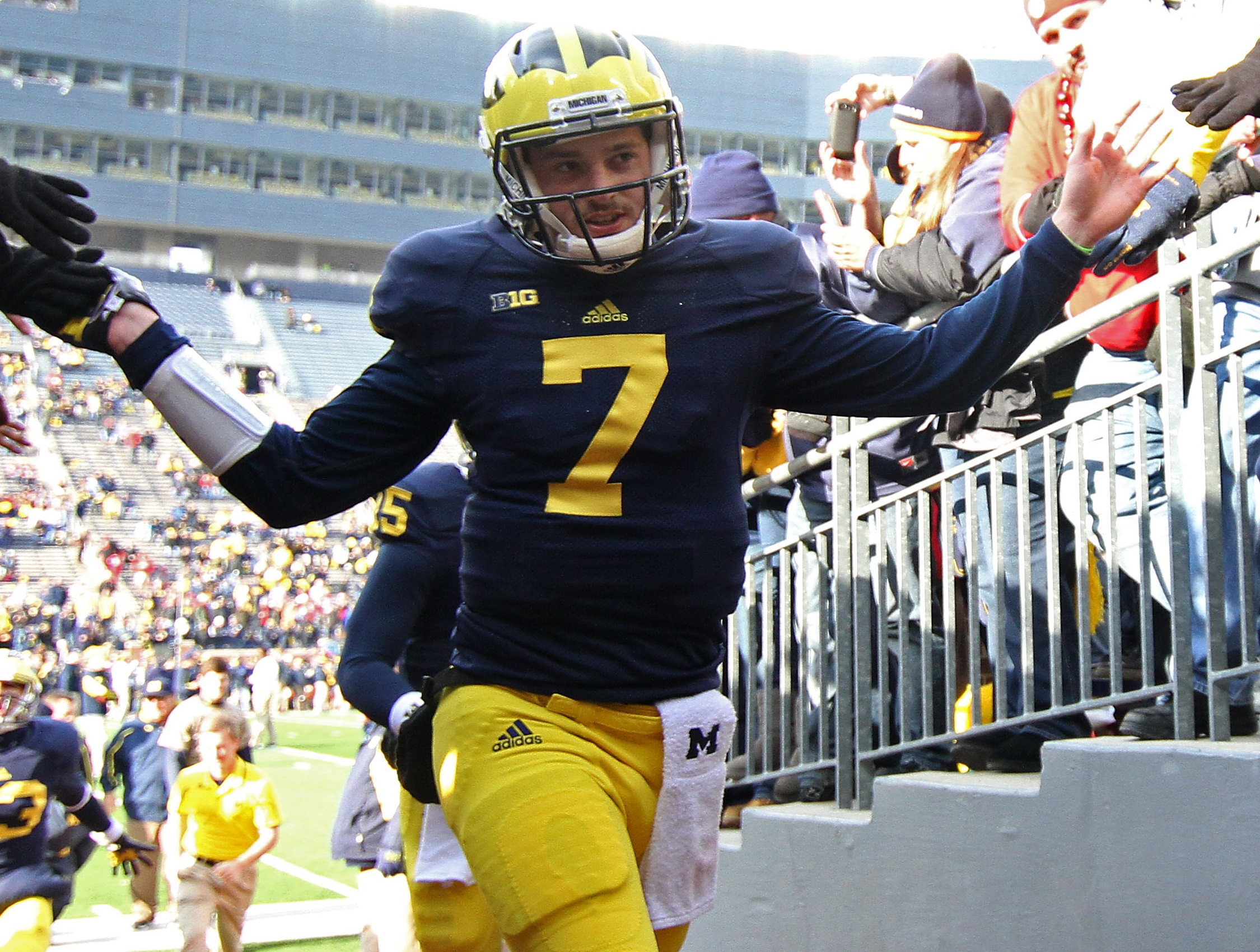 Shane Morris greets fans at Michigan Stadium. (Adam Glanzman)